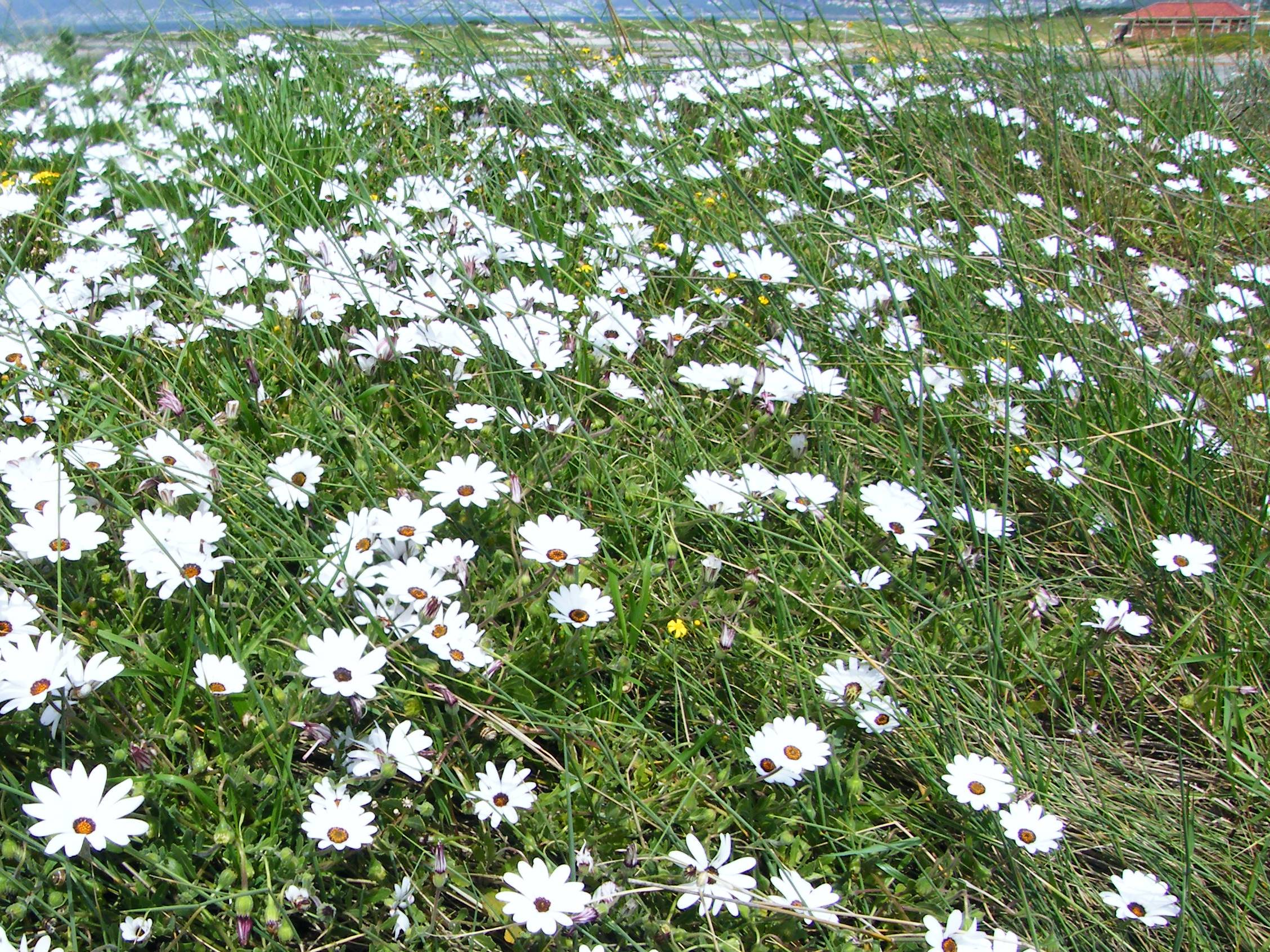 rain flowers